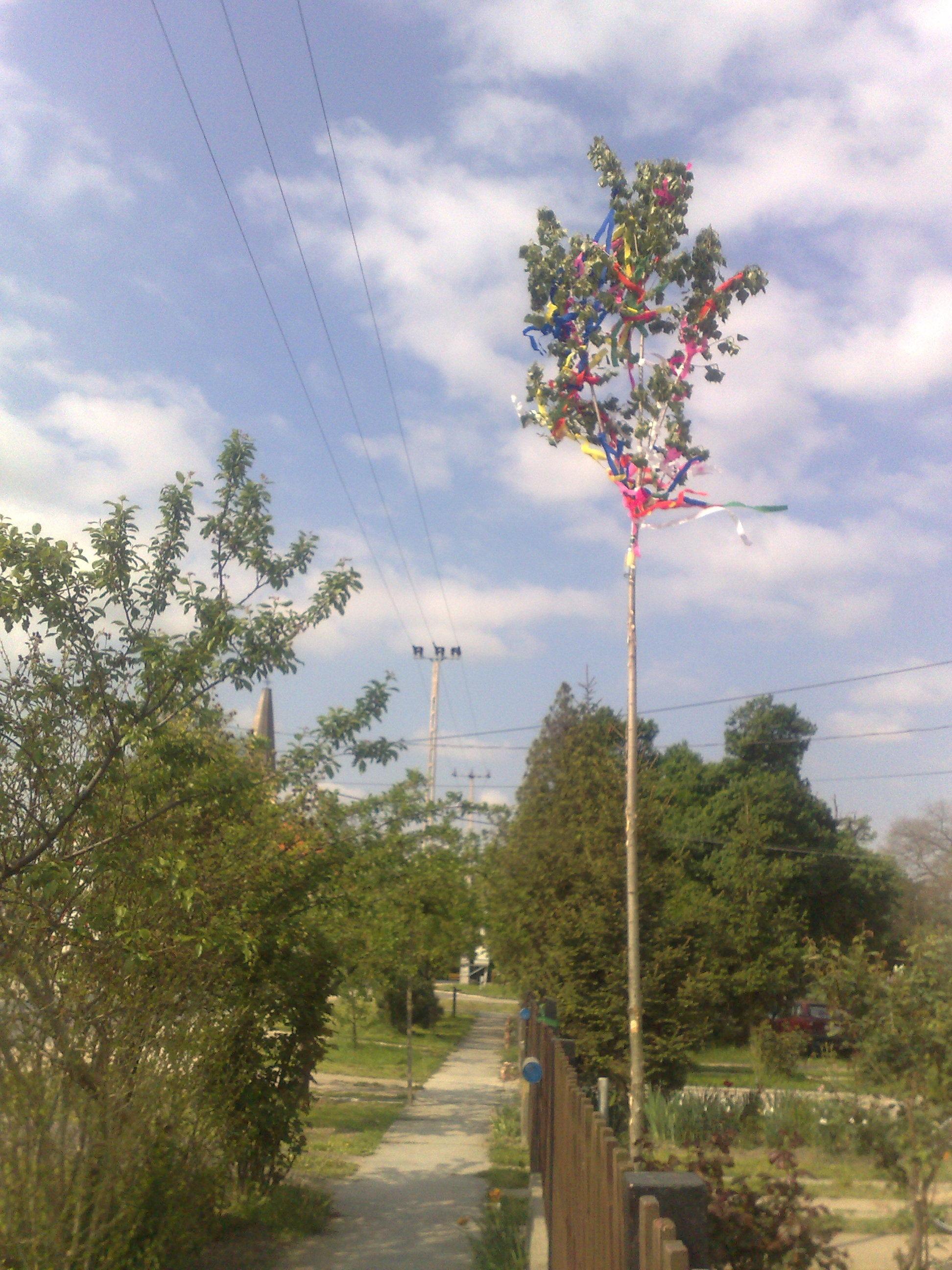 A maypole in Egyed, Hungary, in 2010